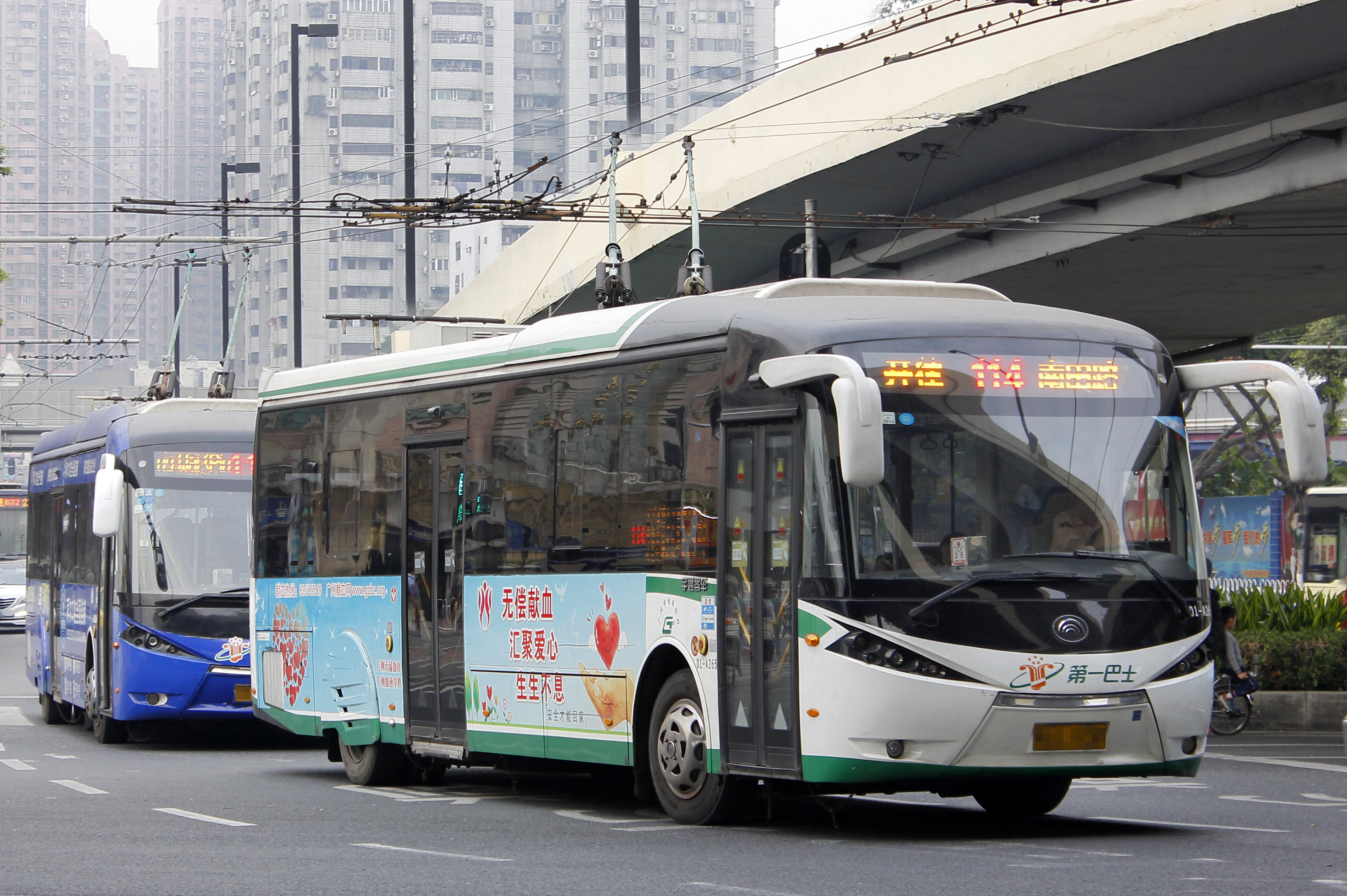 Yutong Trolleybuses in Guangzhou / Route 114